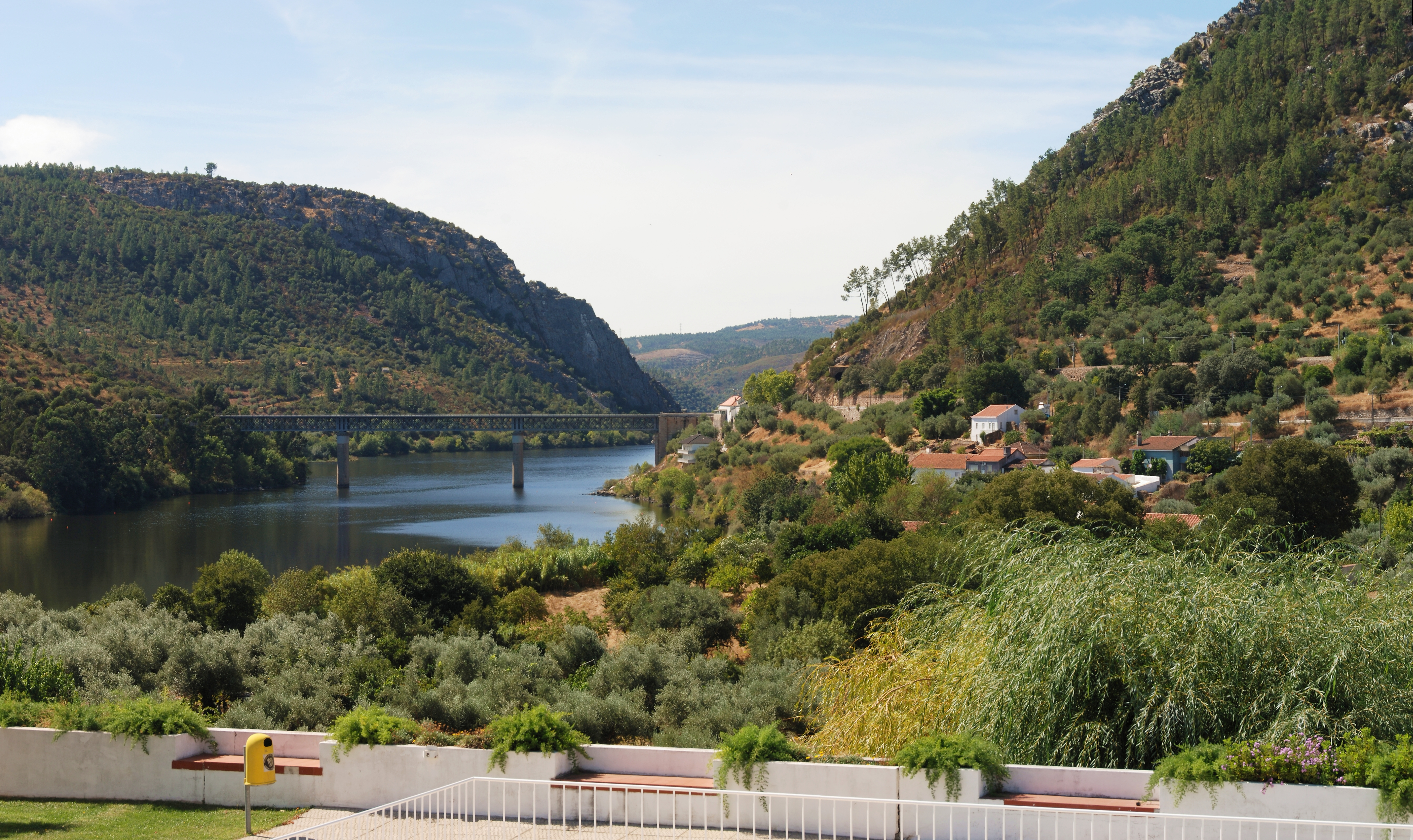 River Tagus, Portugal. View to south from Vila Velha de Ródão